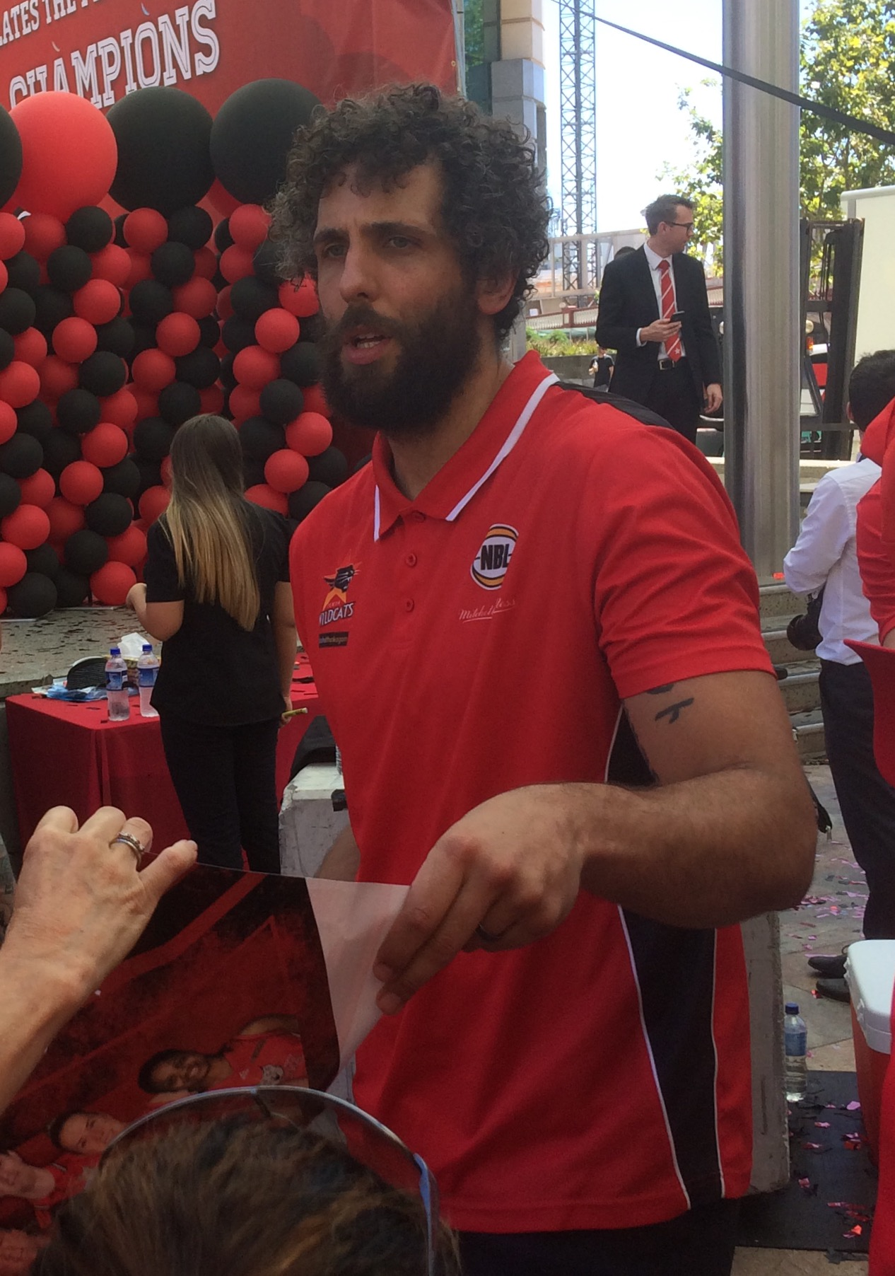 Matthew Knight at the Perth Wildcats' 2017 championship celebration